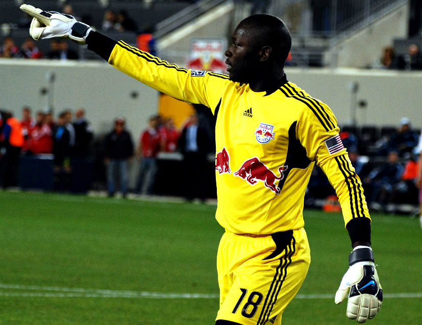 International Senegalese footballer Bouna Coundoul. Photo: Saturday, April 30, 2011.